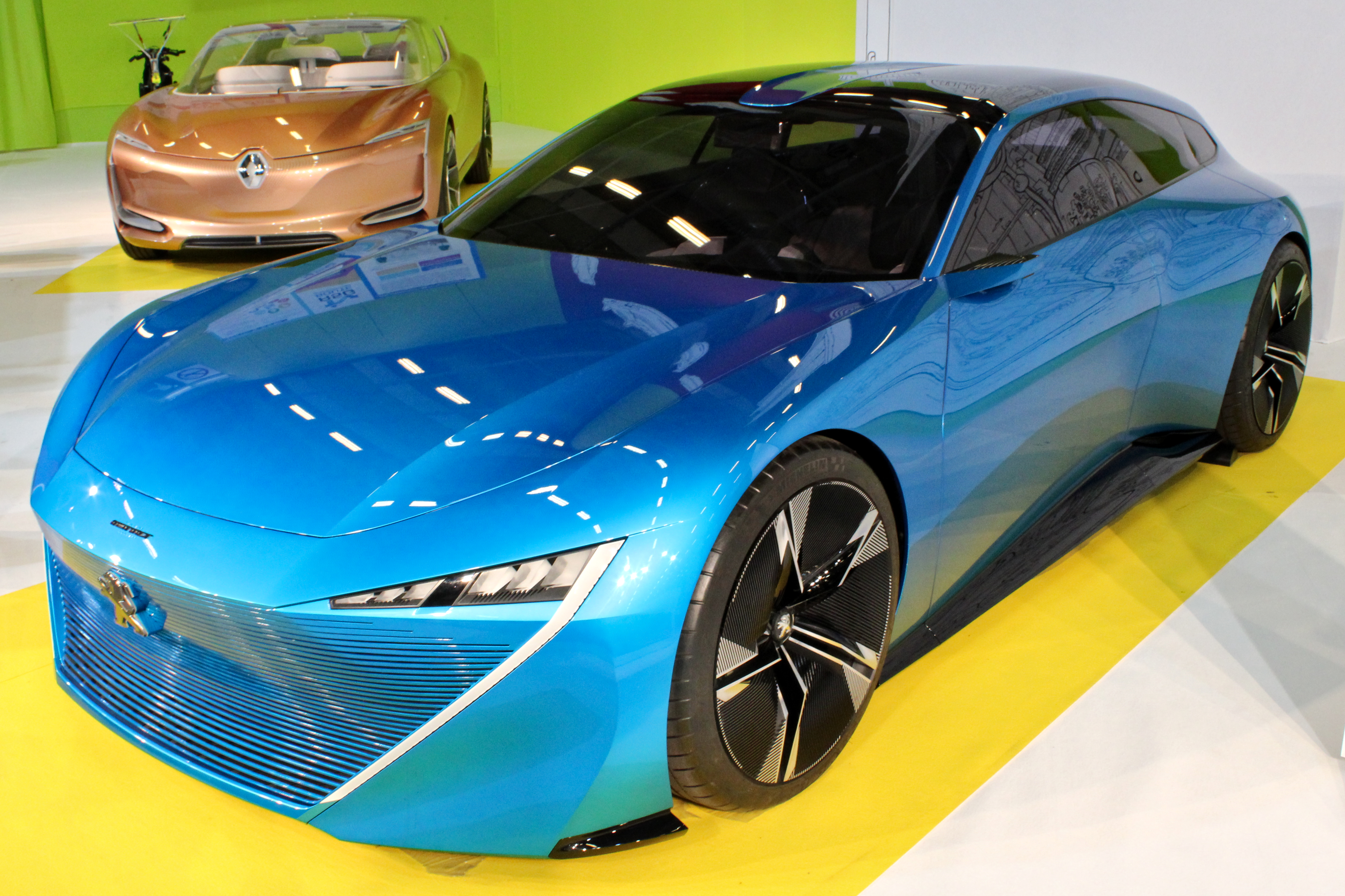 Peugeot Instinct Concept (2017) at Paris Motor Show 2018